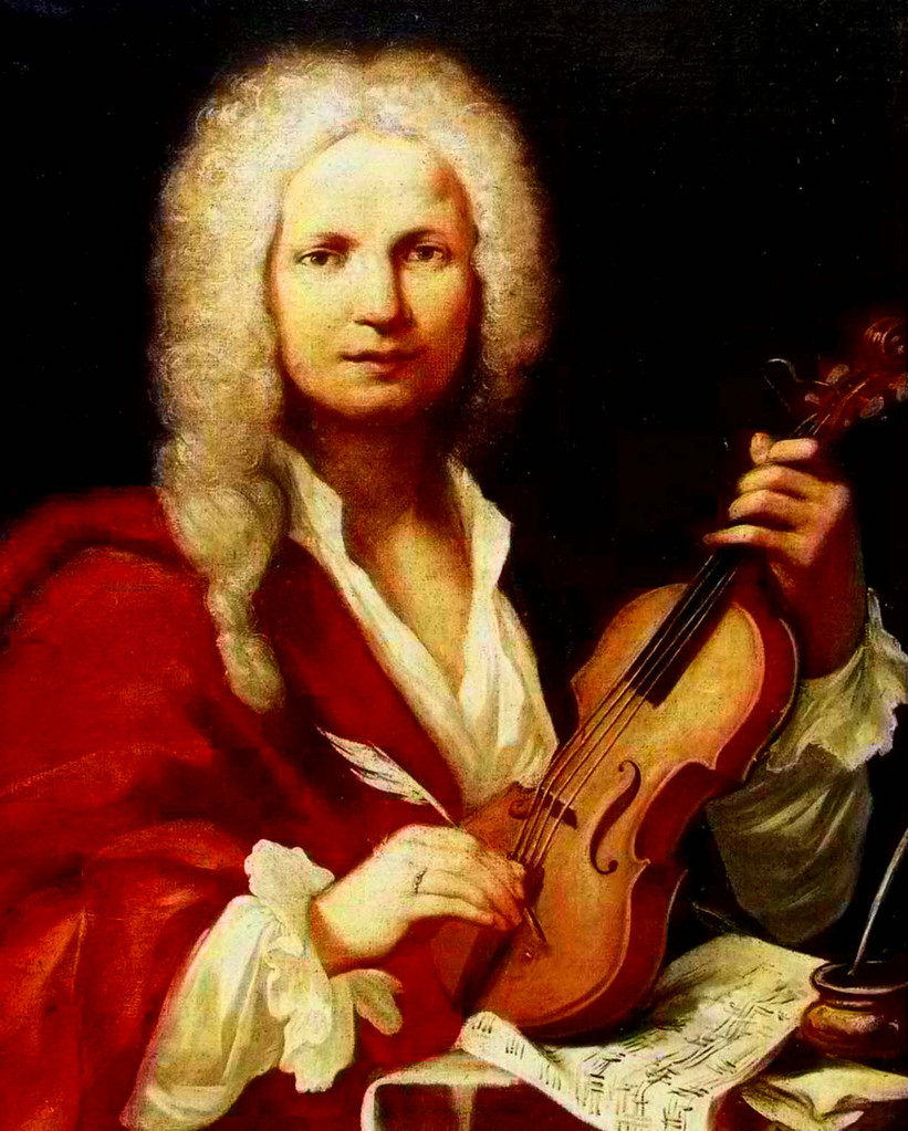 "An anonymous portrait in oils in the Museo Internazionale e Biblioteca della Musica di Bologna is generally believed to be of Vivaldi and may be linked to the Morellon La Cave engraving, which appears to be a modified mirror reflection of it. It is striking how the engraving and the painting 'secularize' Vivaldi: they contain no hint of his identity as a priest. (The fashionable, though slightly informal, dress and self-confident attitude of the composer resemble very closely those of Telemann in the well-known engraving by Georg Lichtensteger.) Ghezzi's sketch at least shows Vivaldi in a clerical collar, but still wearing a wig. (Two years later, in the anno santo of 1725, Innocent XIII was to ban the wearing of wigs by priests.) There is disagreement over whether the hint of red showing in front of the centre of the composer's wig in the painting is a sly reference to his famous hair-colour or simply an unpainted part of the canvas. Whatever the case, it is not out of place to observe that, contrary to the belief of many modern illustrators, Vivaldi's wigs were never coloured red." Michael Talbot, The Vivaldi Compendium (2011), p. 148. The proposition that the painting actually depicts Antonio Vivaldi has been questioned by some sources (e.g. by Groves dictionary).